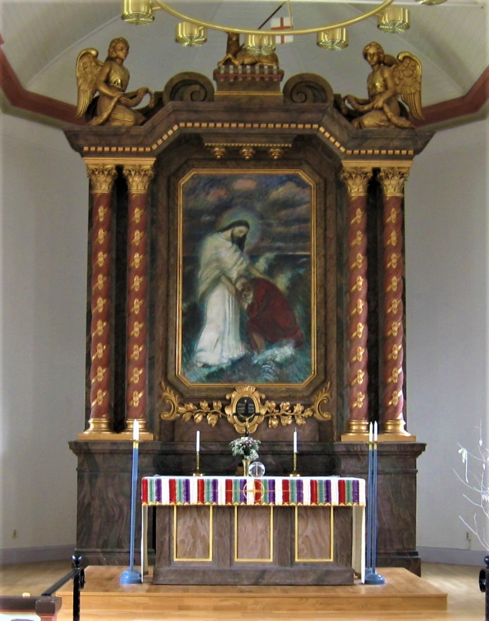 Valdemarsvik Church, altarpiece by David Wallin, painted in 1918-1919, with the motif "Christ and the sinking Peter .